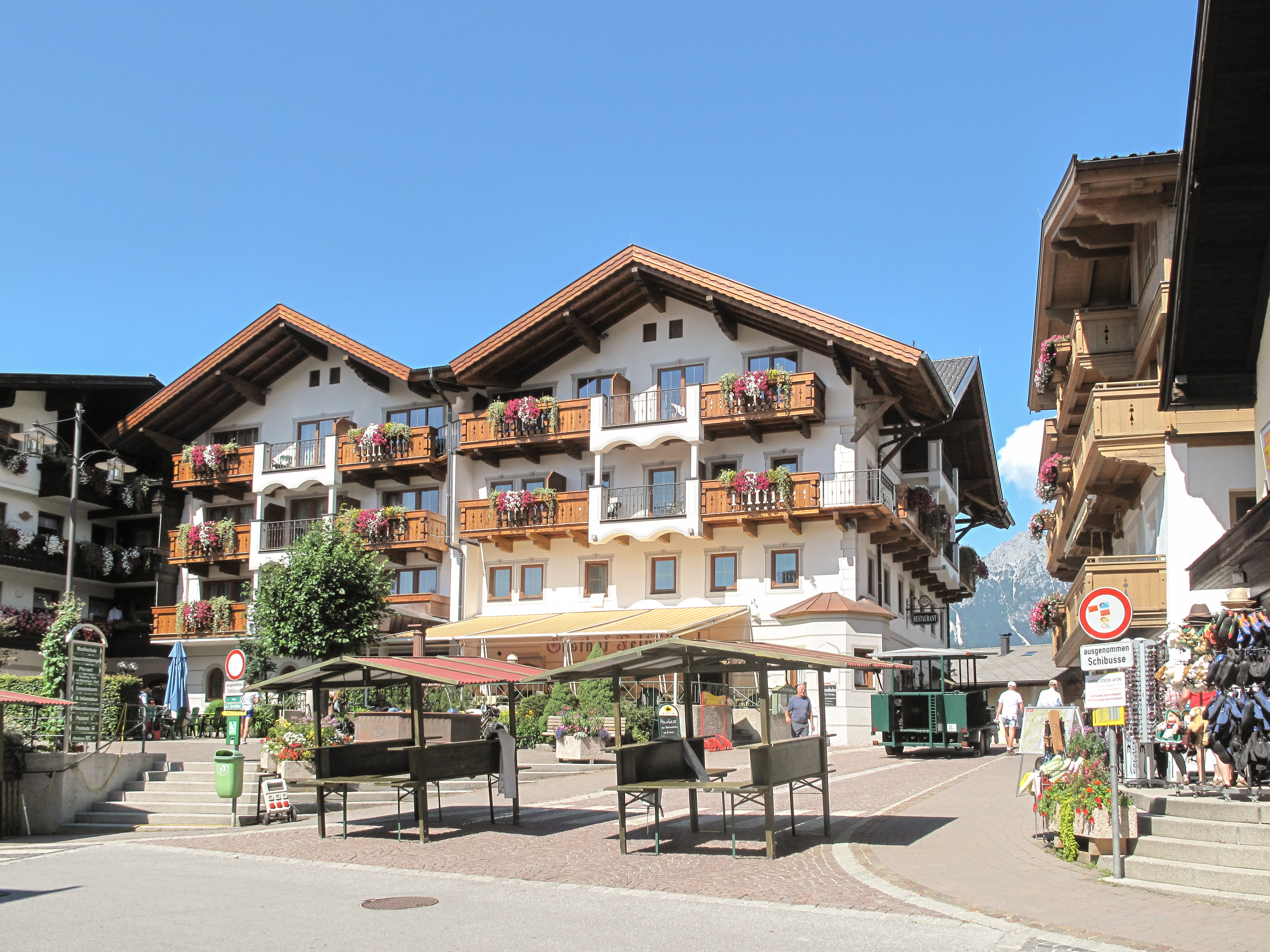 Söll, view to a street